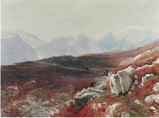 Blooming Alpine Roses with Hikers